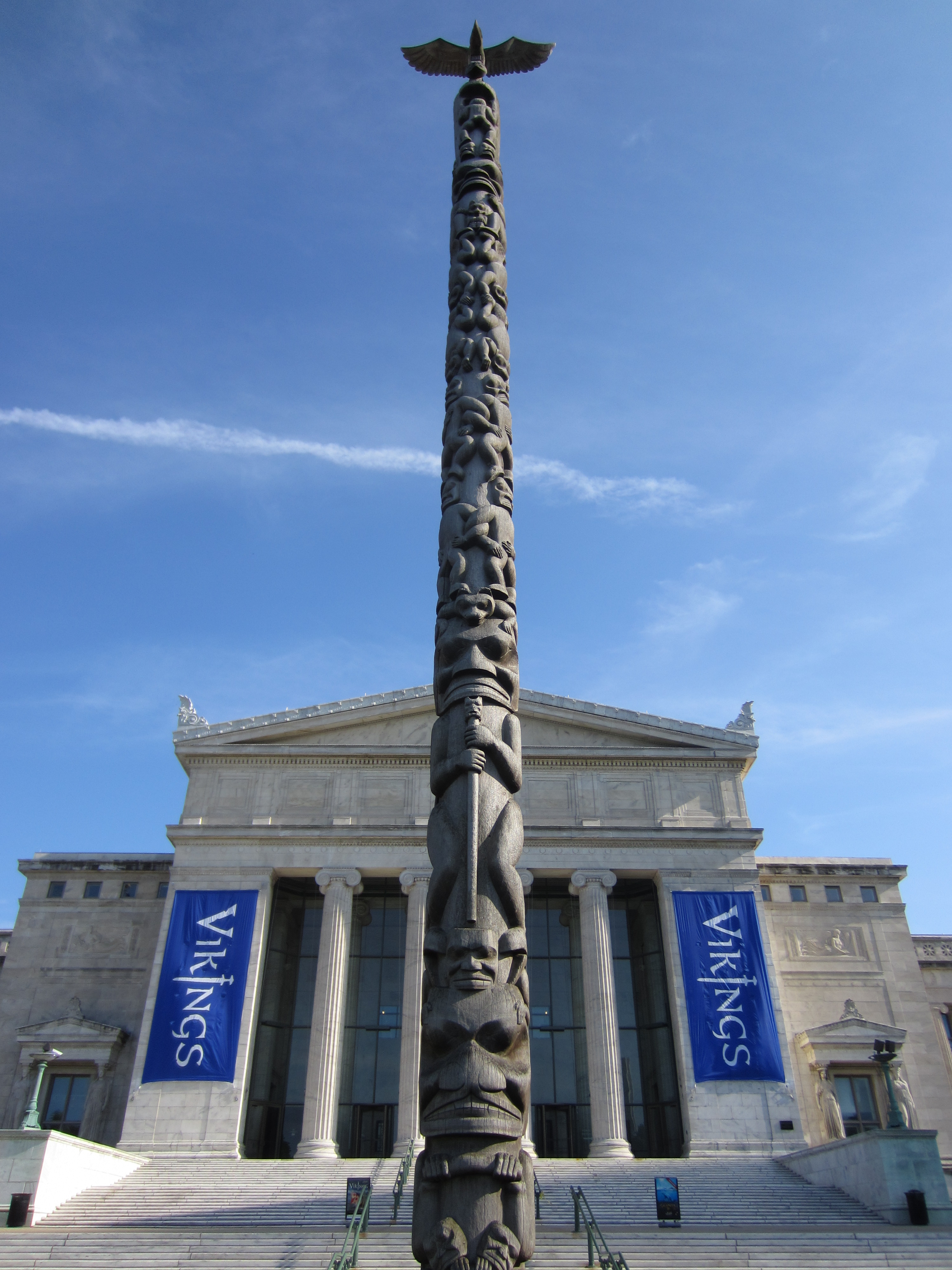 Chicago, Illinois, June 2015